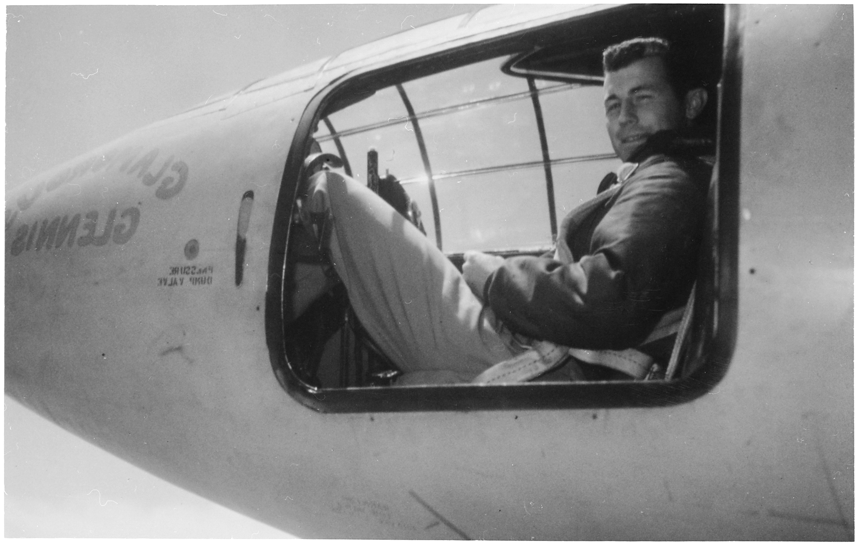 Scope and content: Original caption: Captain Charles E. Yeager, the Air Force pilot who was the first man to fly faster than the speed of sound, sits in the cockpit of the Bell X-1 supersonic research aircraft.